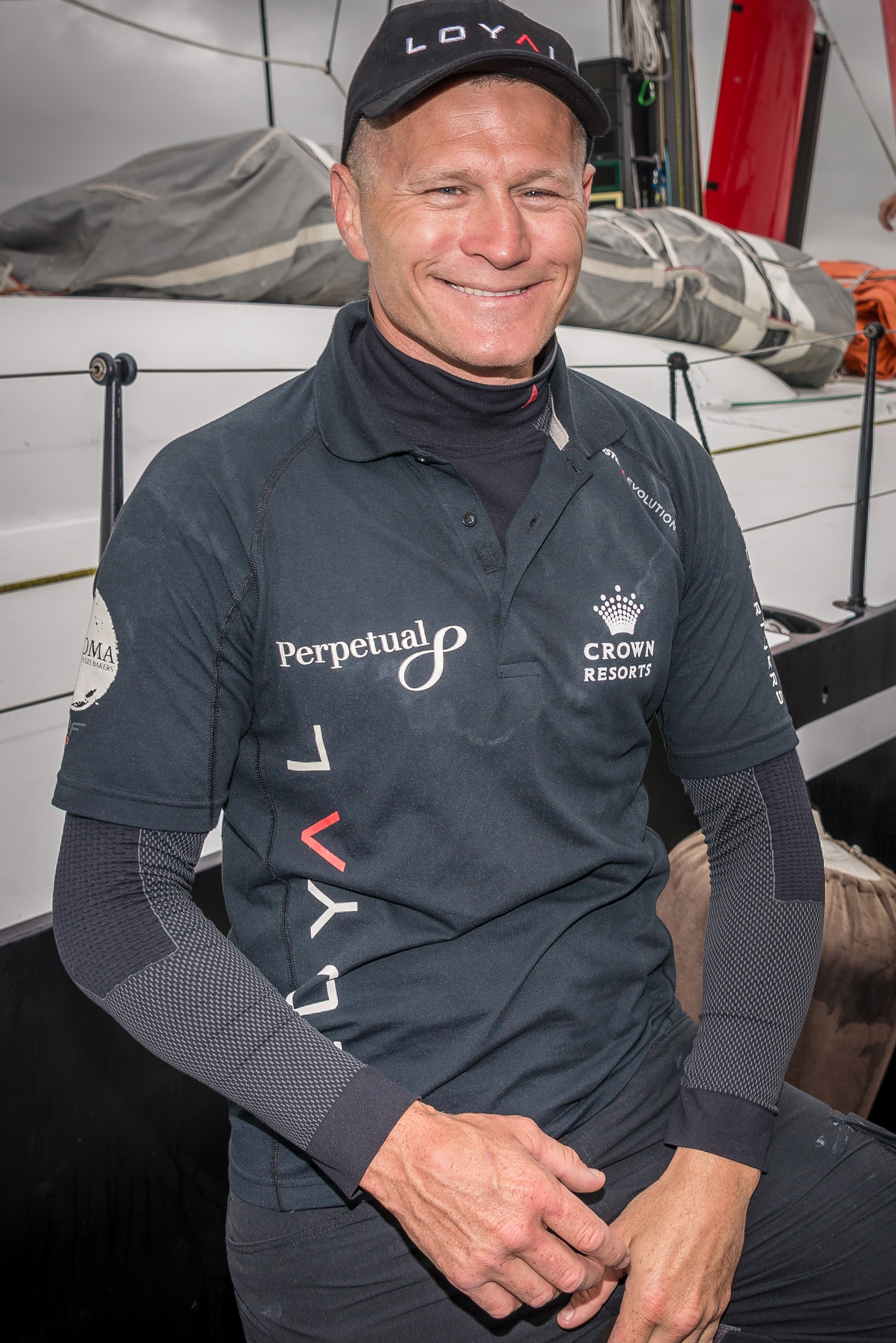 Danny Green aboard Perpetual Loyal for 2014 Sydney Hobart Race